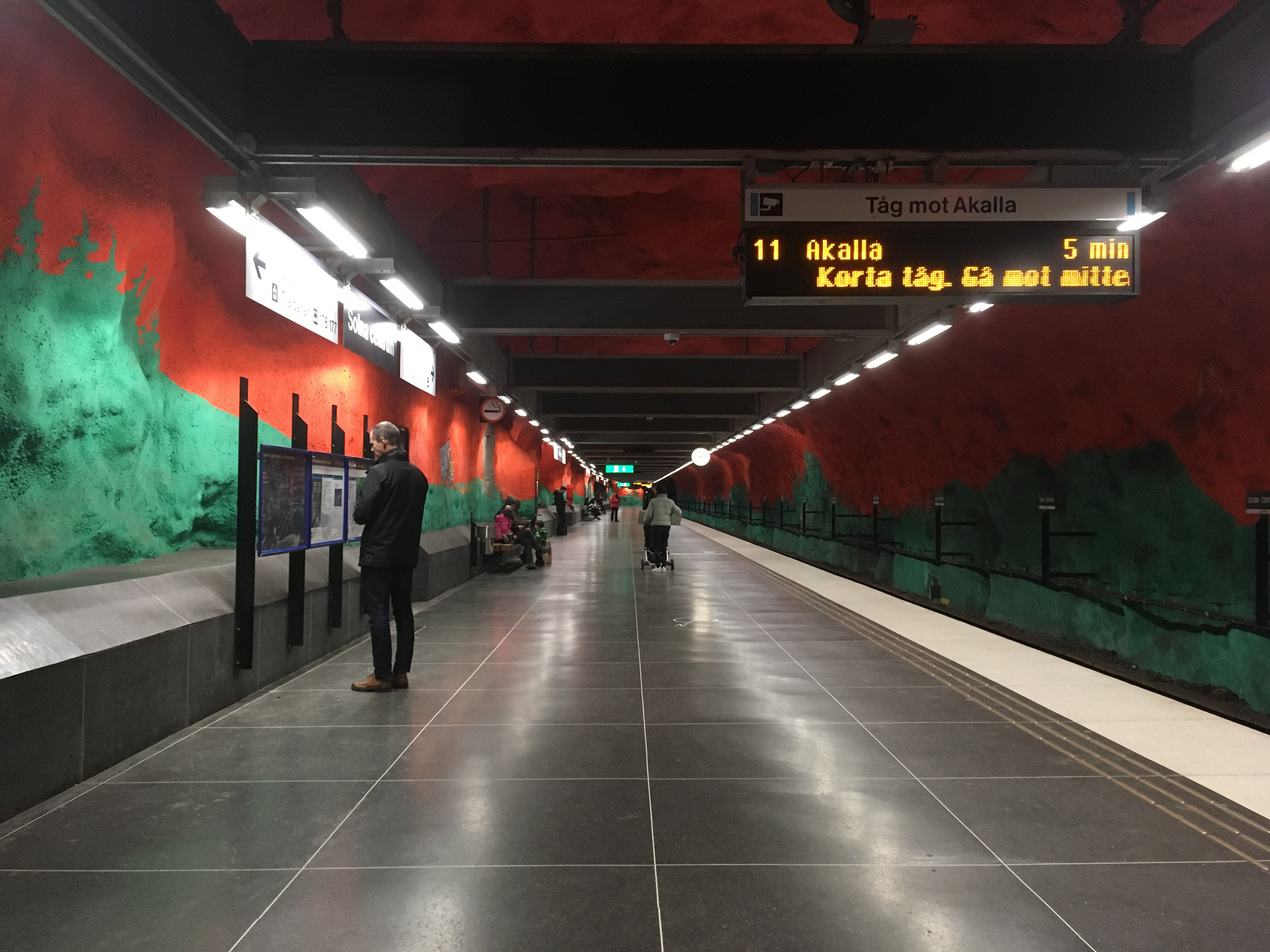 Solna centrum subway station